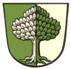 Coat of arms of Holzheim (Aar)